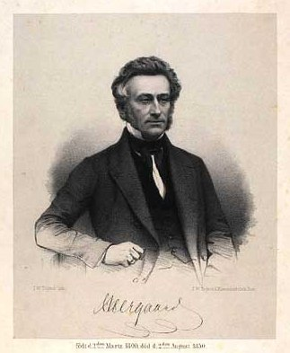 Carl de Neergaard (1800-1850), Danish estate owner and politician, MP